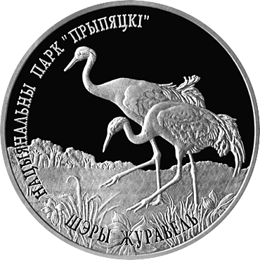 Environmental protection. Commemorative coins "Natsyyanalny Park Prypyatskі. Shery Zhuravel (" National Park "Pripyat. " Crane ")